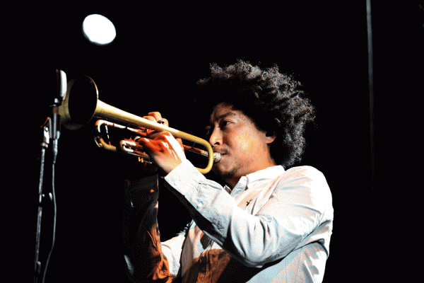 Takuya on a recording session